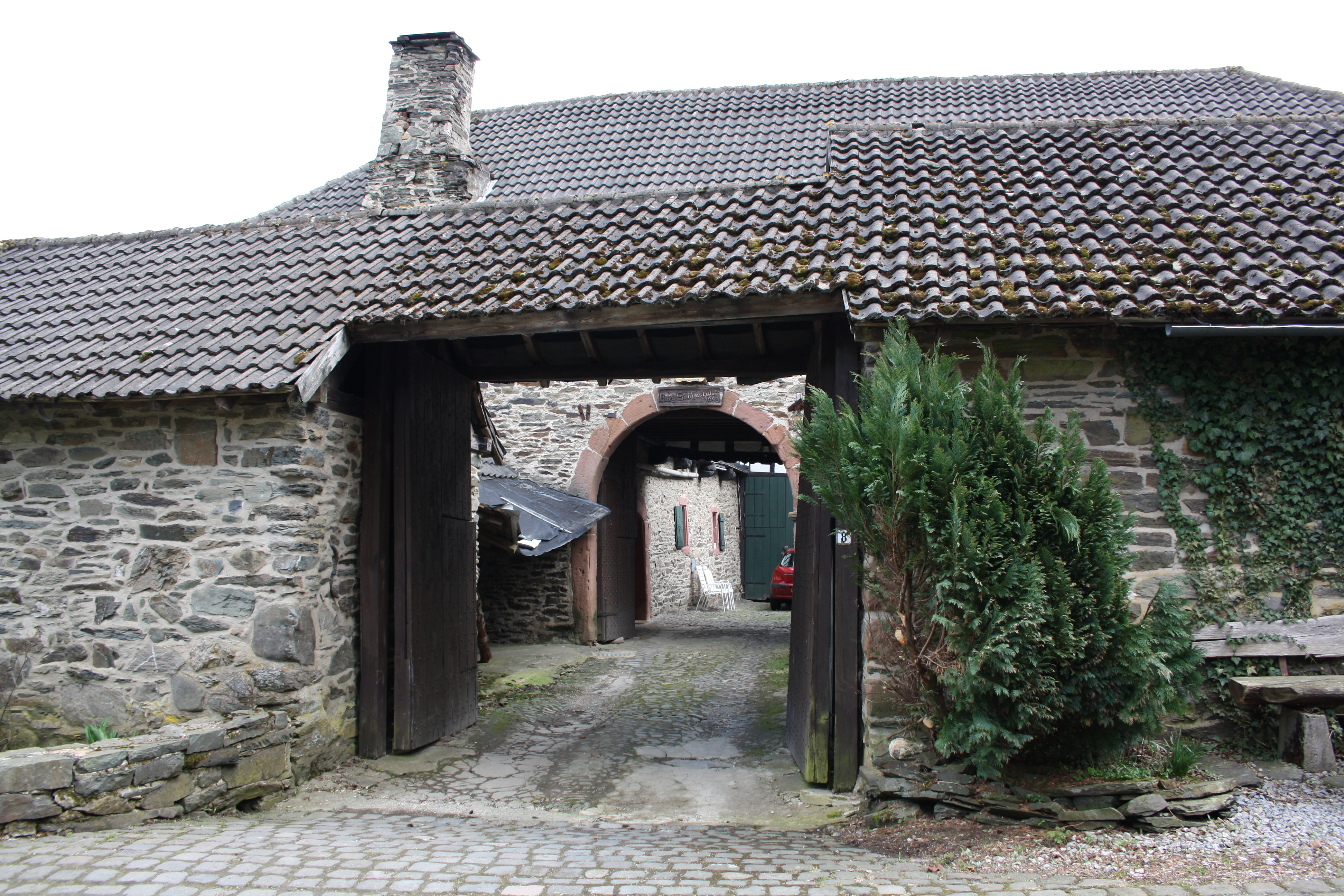 "Castle" at Hürtgenwald-Simonskall (Germany)